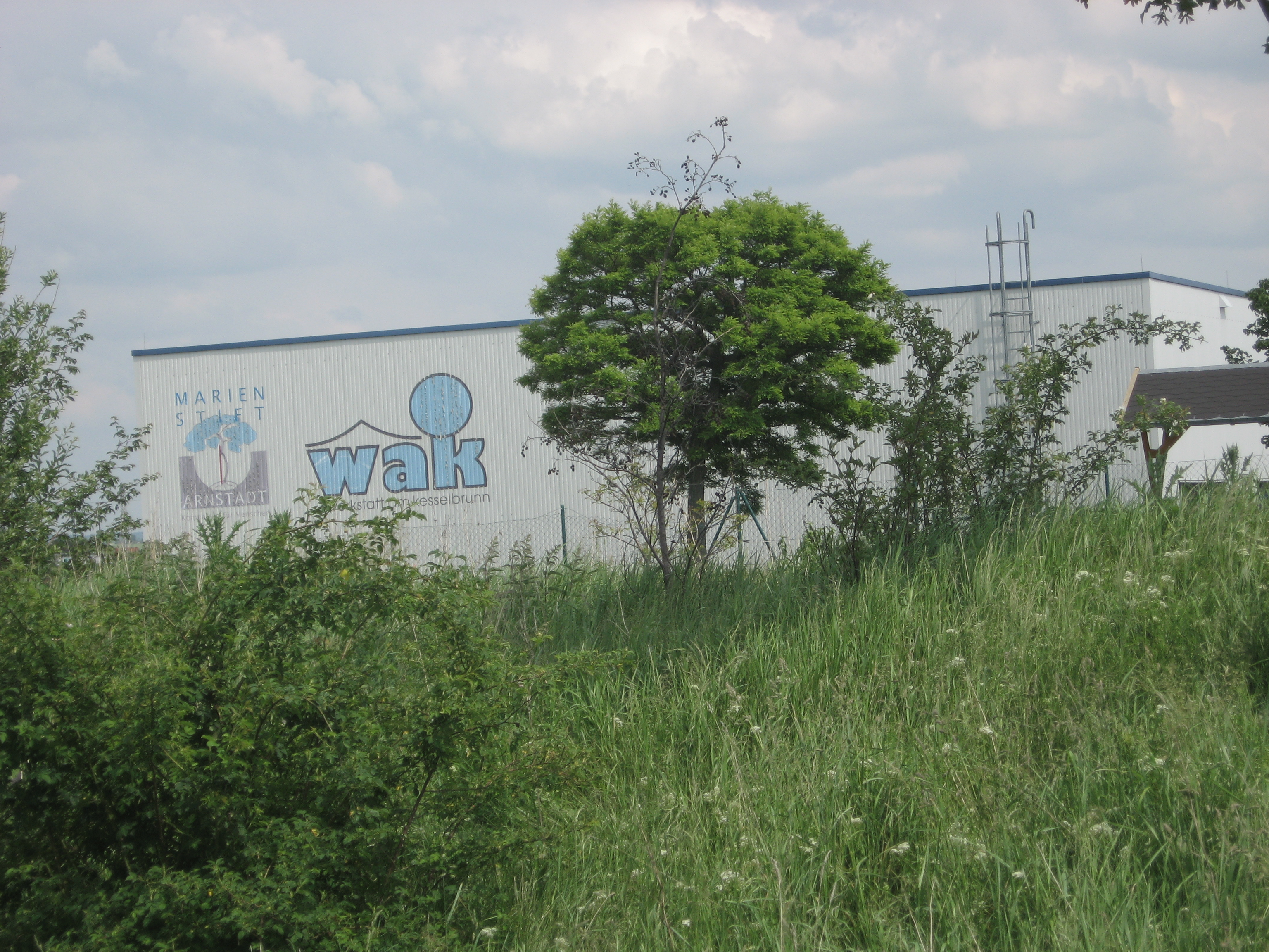 Werkstatt für behinderte Menschen, Marienstift Arnstadt.